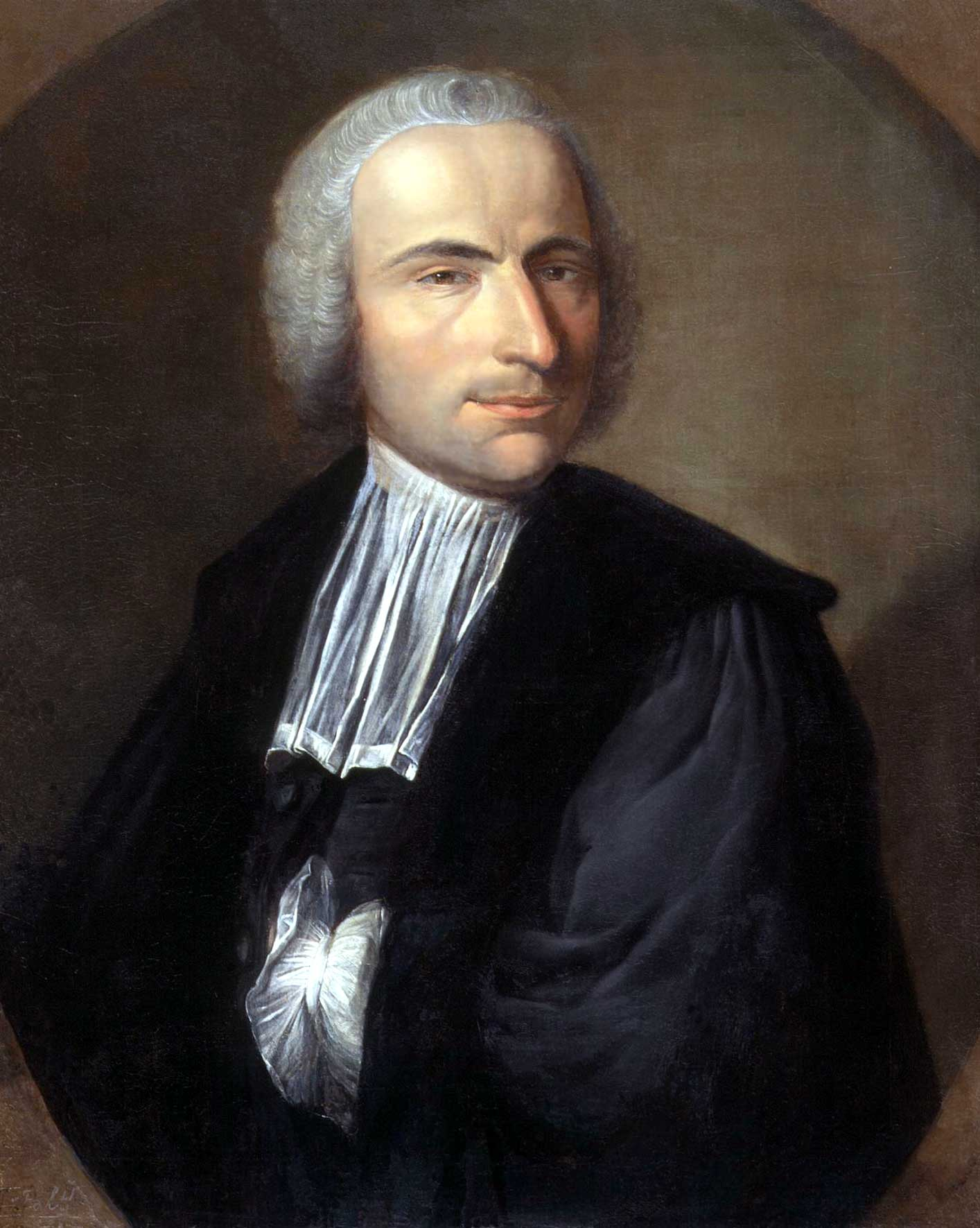 Jean-Nicolas-Sébastien Allamand also: Johannes Nicolaus Sebastianus Allamand (1713-1787) Swiss scientists